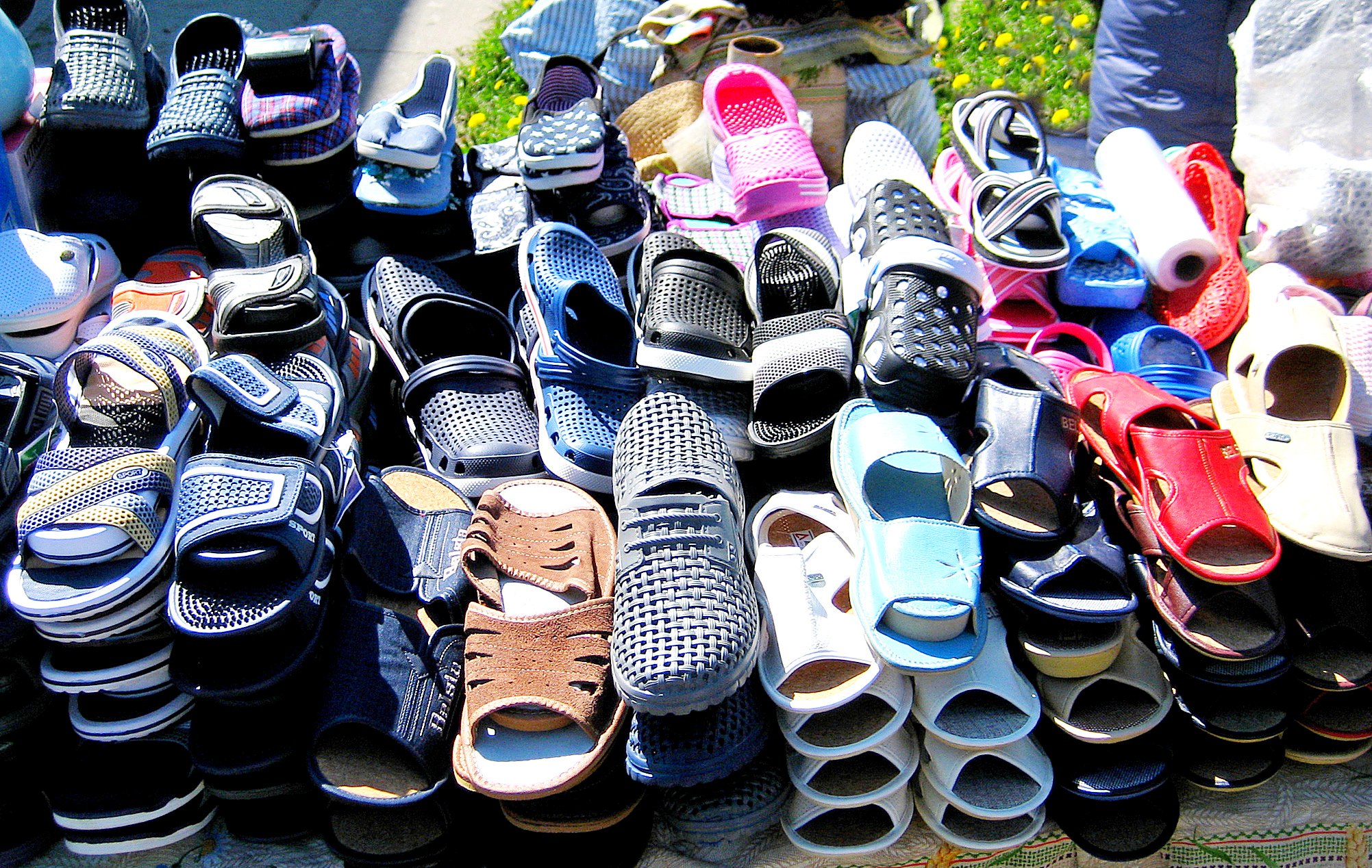 Slippers